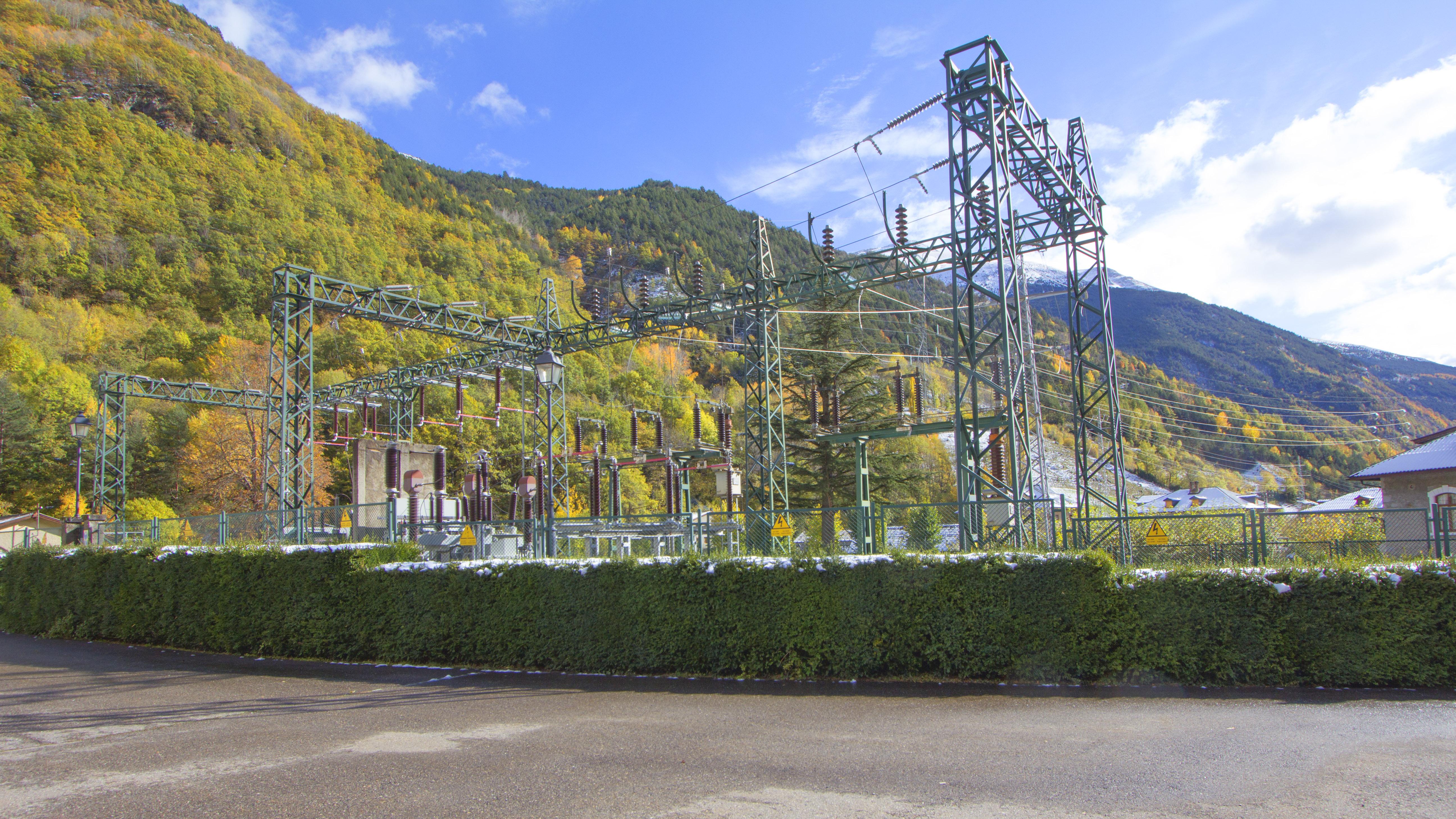 Transformers at Capdella hydropower plant (Catalonia)